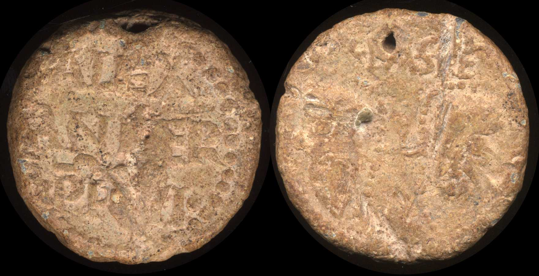 Papal bulla of Alexander III. Lead disc with cast detail on both sides and pierced for attachment. Side 1:- Heads of St Peter and St Paul are surrounded by a beaded border with remains of inscription SPA SPE. The piercing runs between the P and A and there is a crease across SPE. Side 2:- ALEX ANDER PP [?I]II surrounded by a beaded border. The D and III (?) are slightly obscured (possibly a casting flaw).